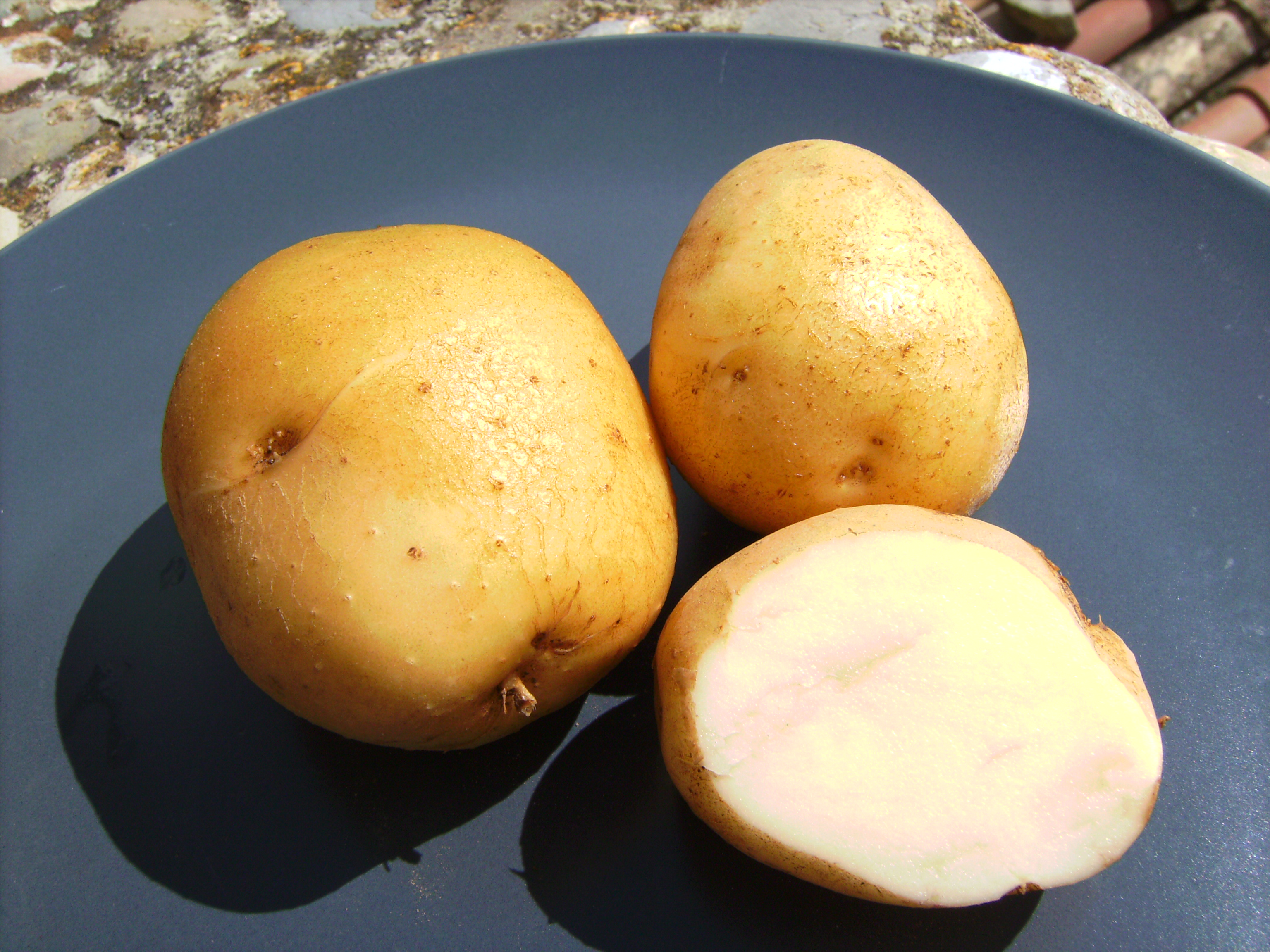 Potato cultivar Kennebec at Castelltallat, Catalonia